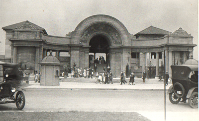 Sunnyside Bathing Pavilion, August 7, 1922